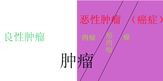 the relation between Tumor, Carcinom and Sarcoma